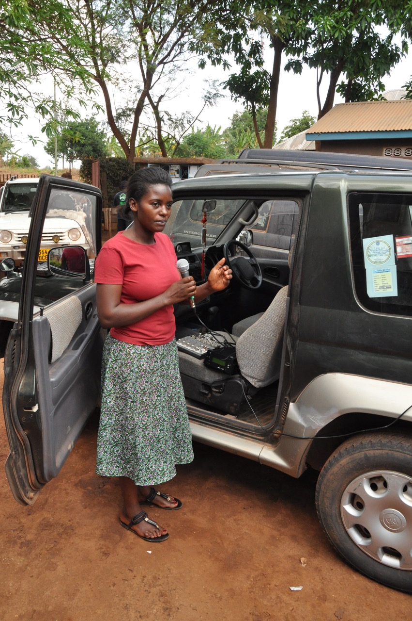 Description and categories forthcoming